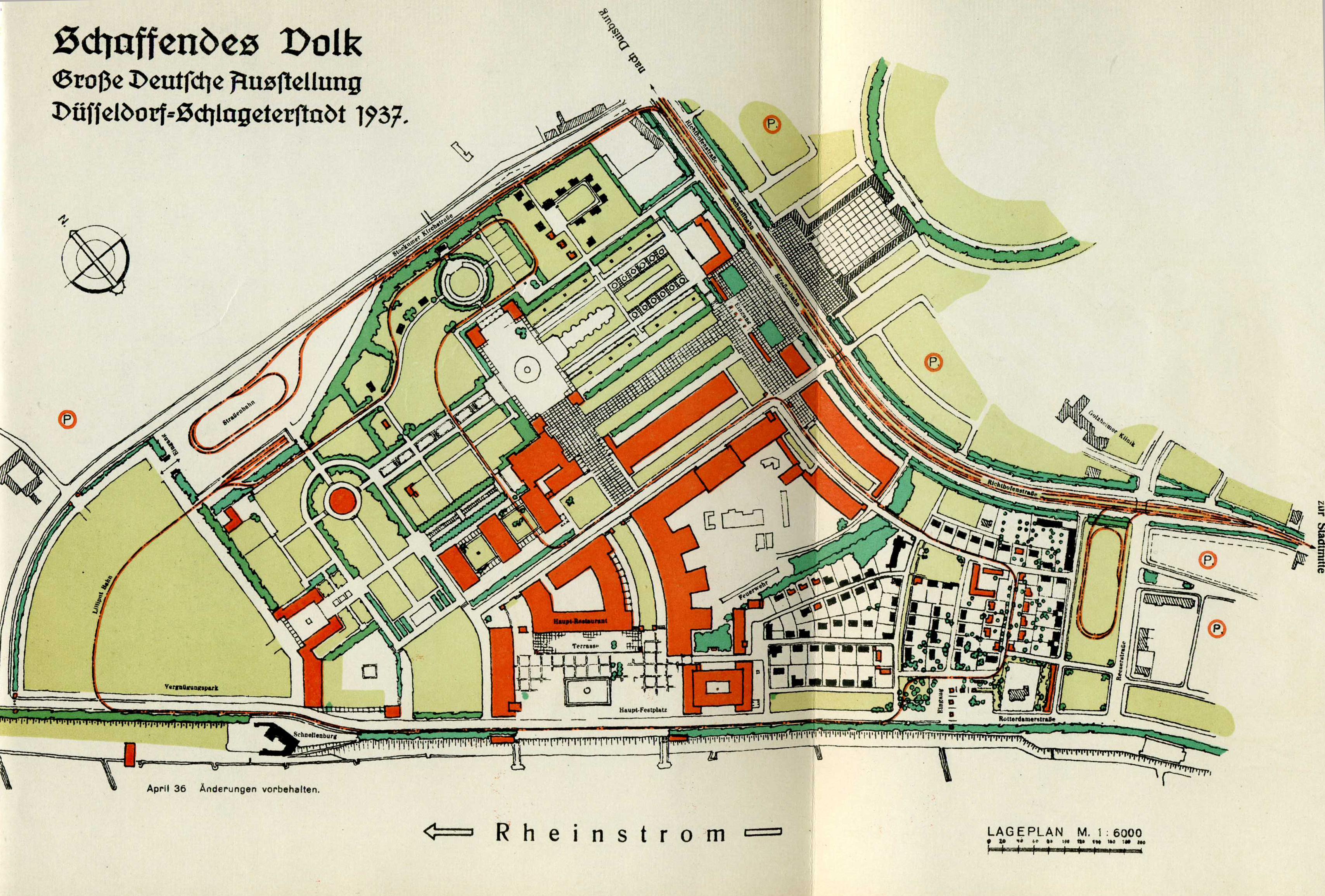 Map of the Reichsaustellung Schaffendes Volk, Düsseldorf 1937